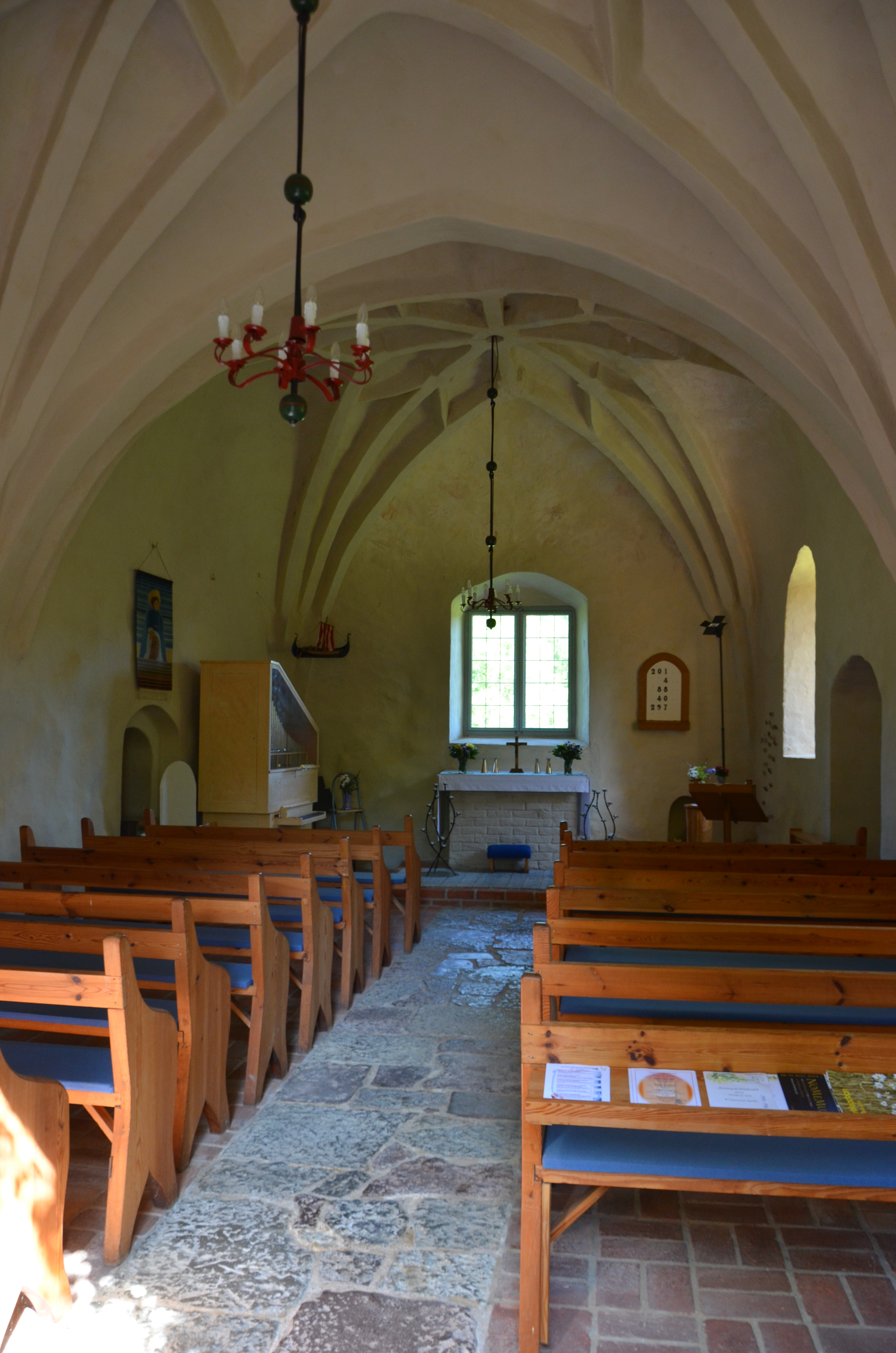 Interiör, Sankt Annas gamla kyrka, Östergötland